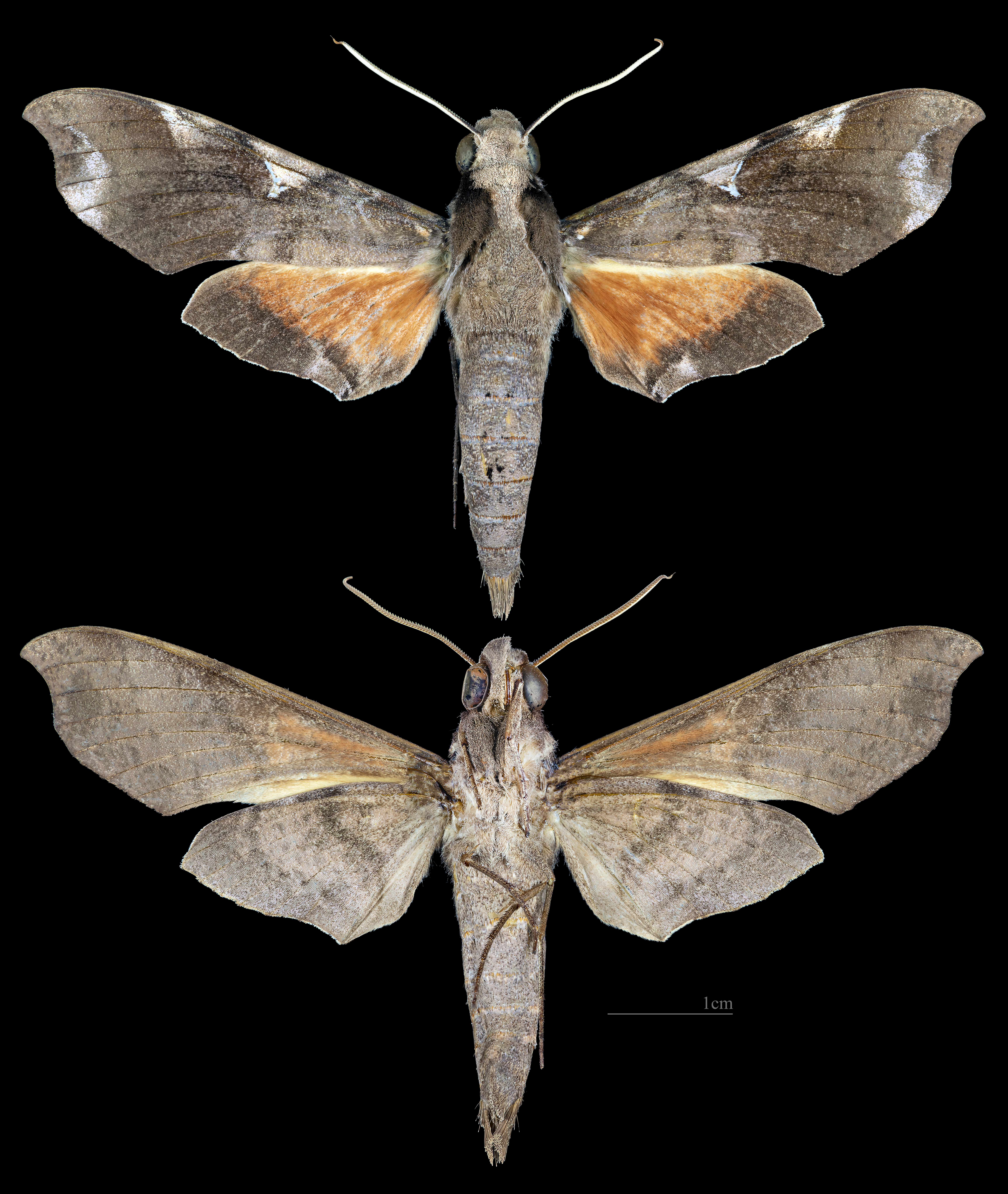 Callionima acuta - Two views of same specimen Collection of the Mathematician Laurent Schwartz